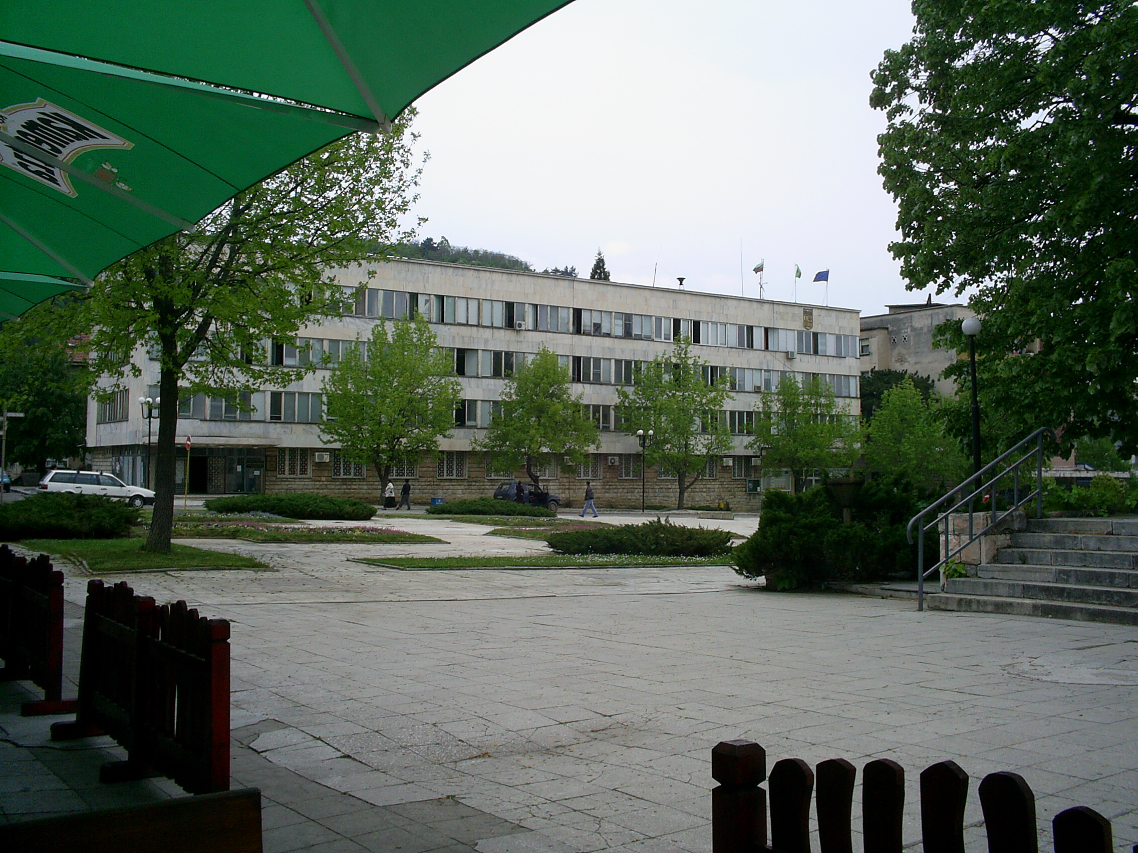 The building of the municipality and court in Berkovitsa, Bulgaria